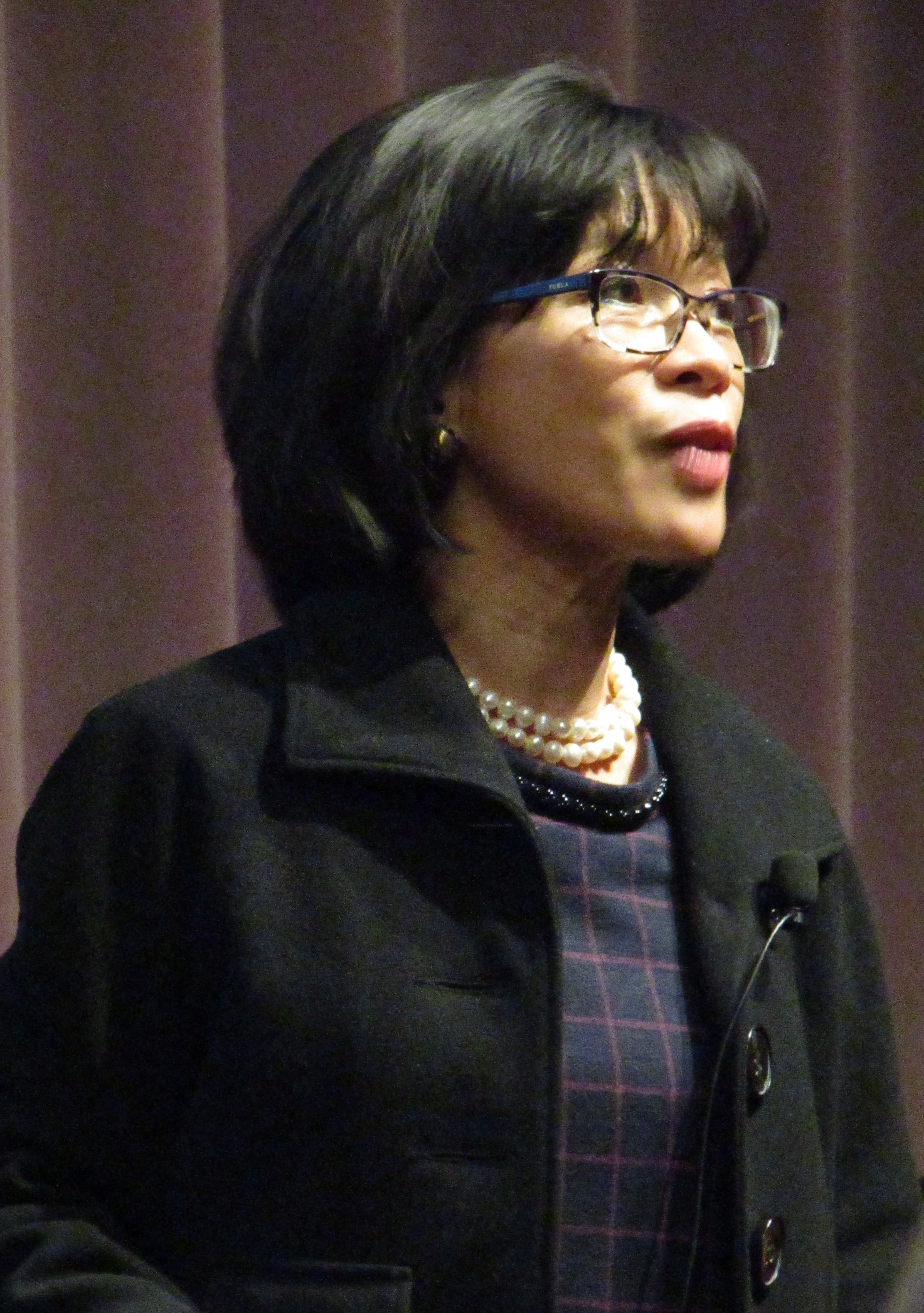 Astrid S. Tuminez, president of Utah Valley University, giving the English Symposium keynote address at BYU.